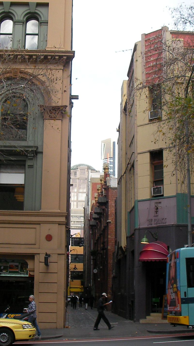 Niagara Lane, Melbourne. From Lonsdale Street.